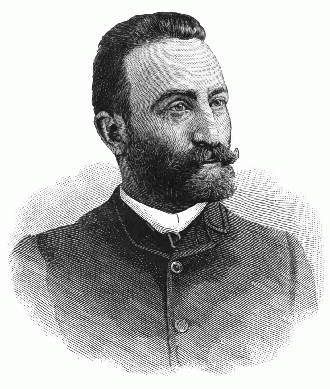 Otto Saly Binswanger (1854-1917), American chemist and physician